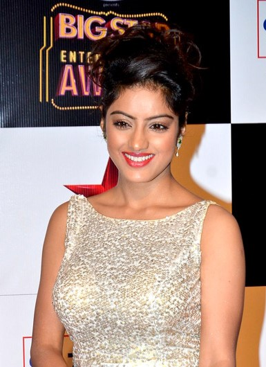 Deepika Singh at 2014 BIG Star Awards